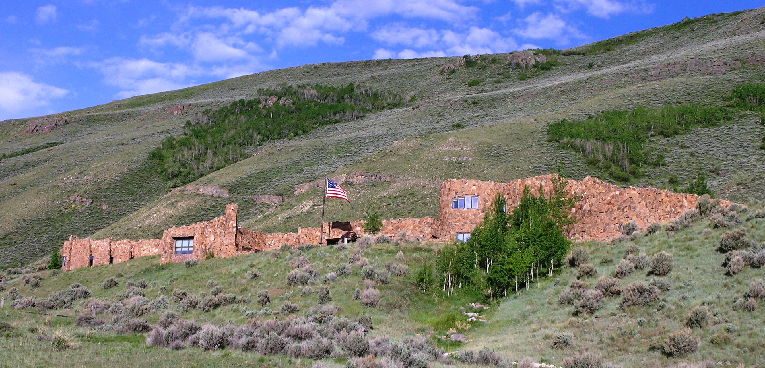 Photo in or around Grand Teton National Park